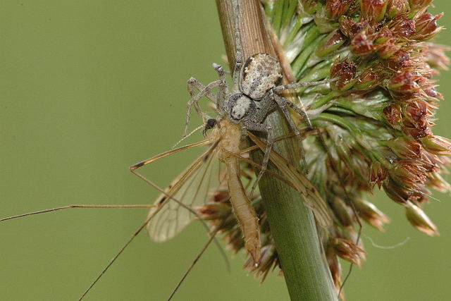 Philodromus cespitum with prey, from Commanster, Belgian High Ardennes .